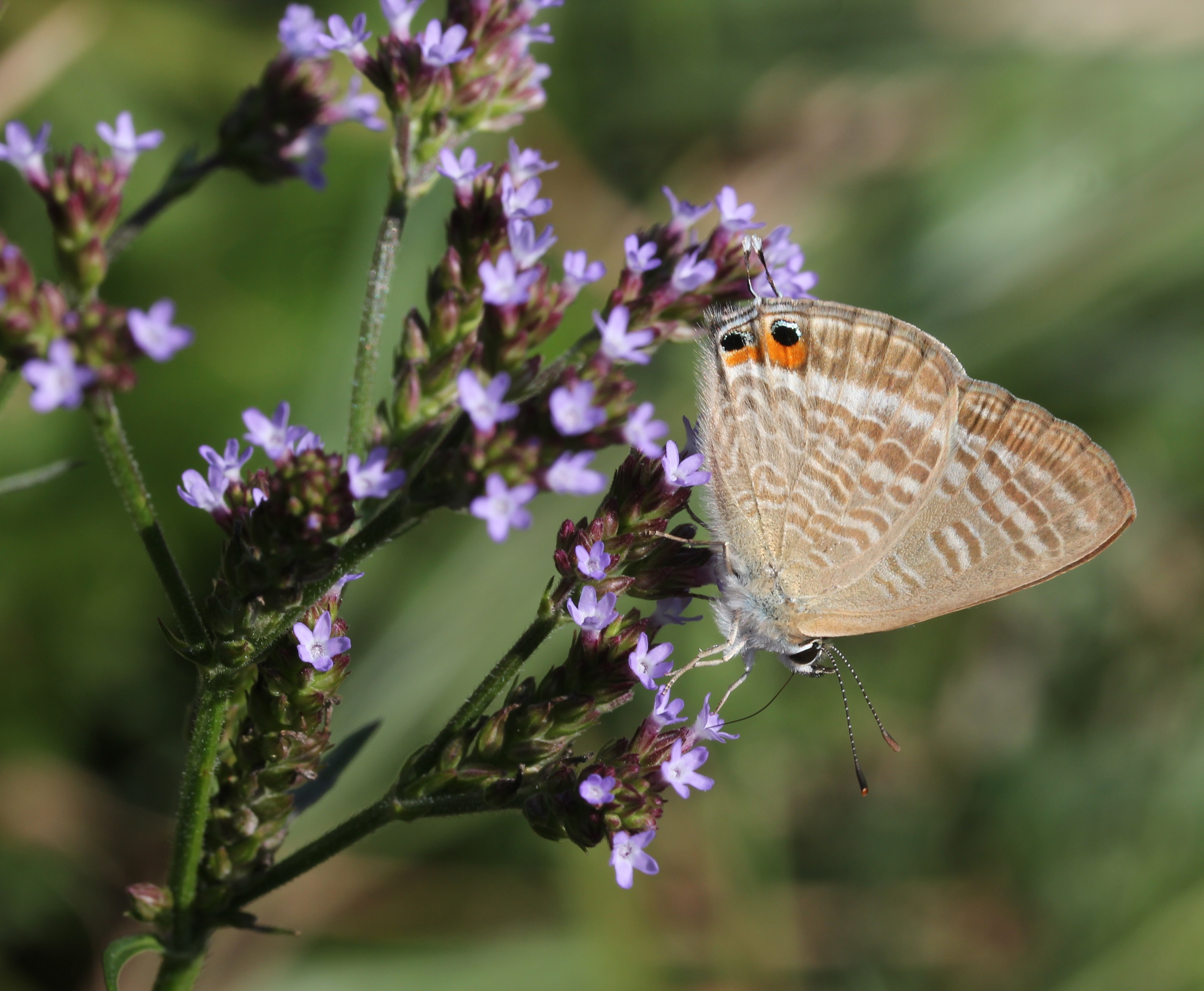 Lampides boeticus, on Verbena brasiliensis, in Japan.